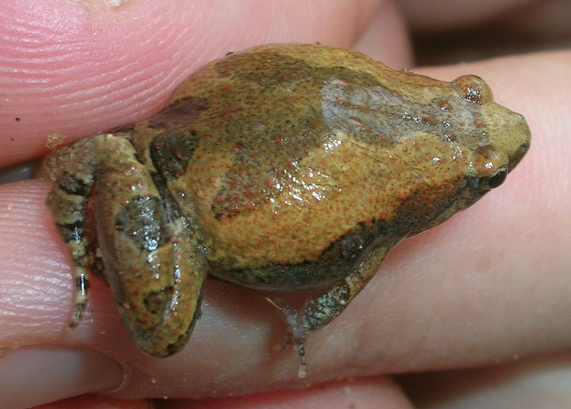 Microhyla ornata, Melpatti, Javadi hills